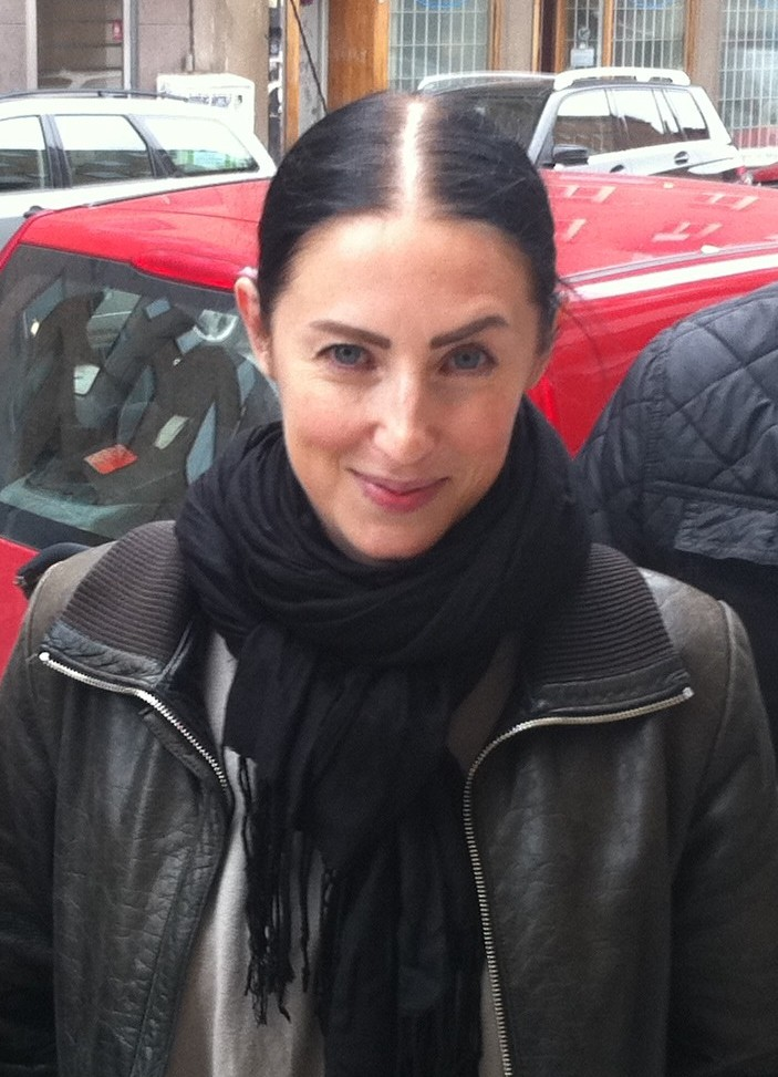 Emma Gray Munthe, 2011.